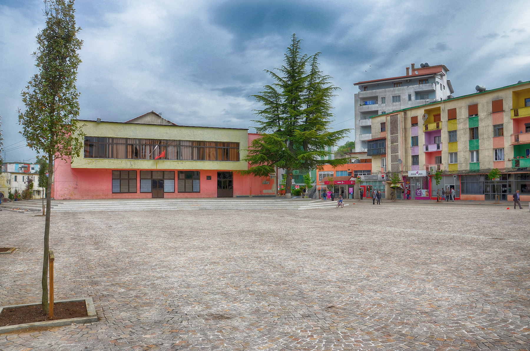 The main square of Rrëshen, Albania with the Culture Palace on the left